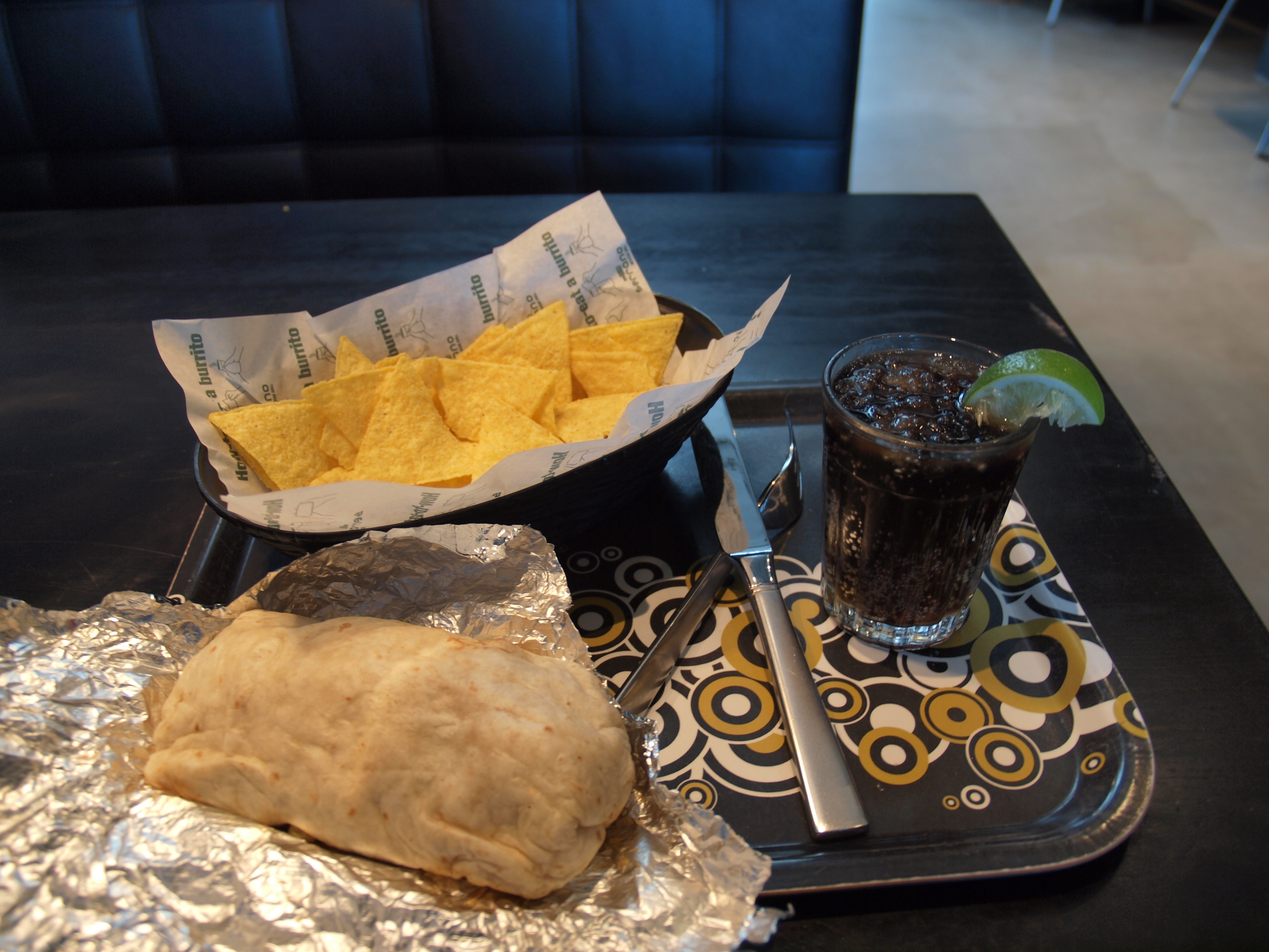 A burrito, nachos, and a glass of Coca-Cola with a slice of lime at restaurant Serrano, at Kungsbron 4, Stockholm, Sweden.